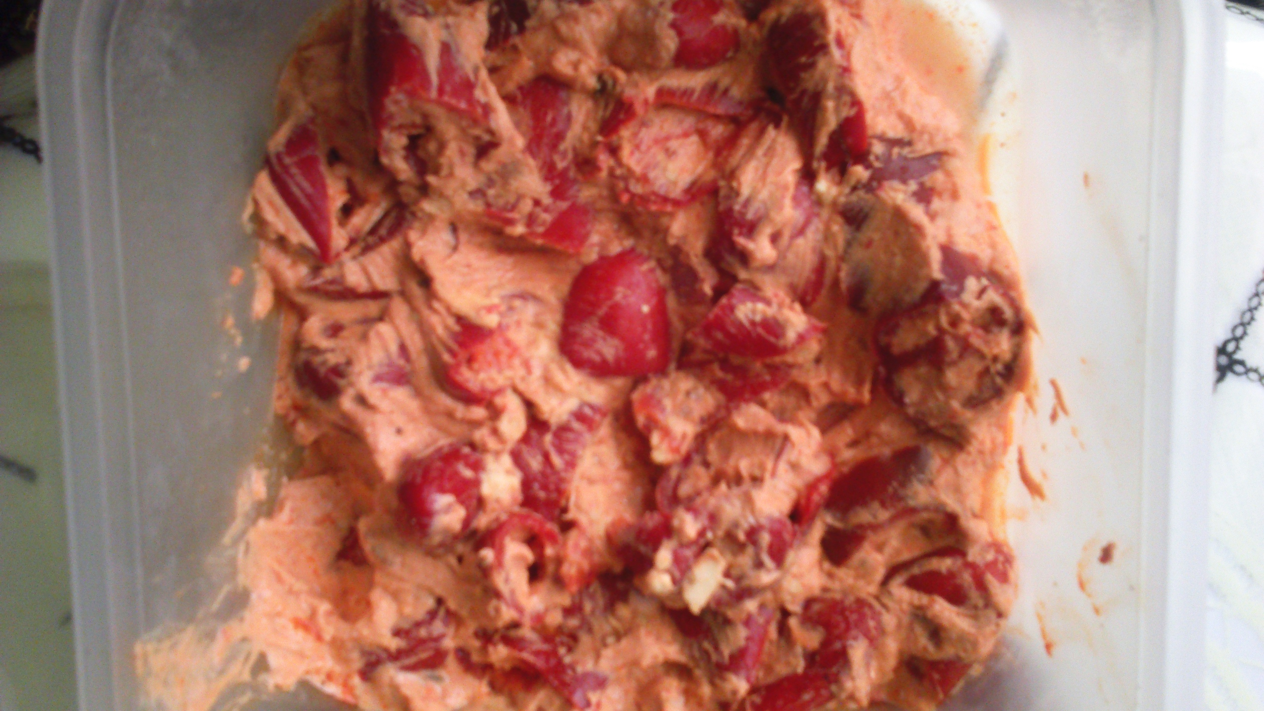 This is an image of food from Egypt